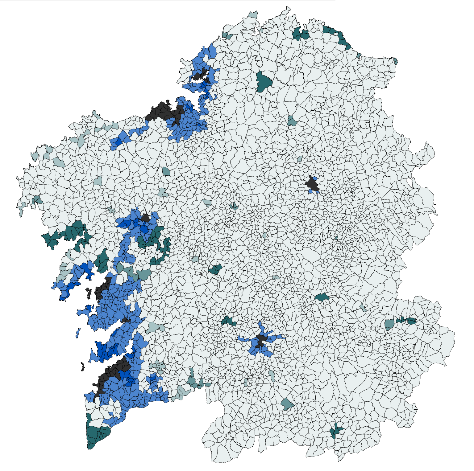 Parroquias de Galicia por Poblacion